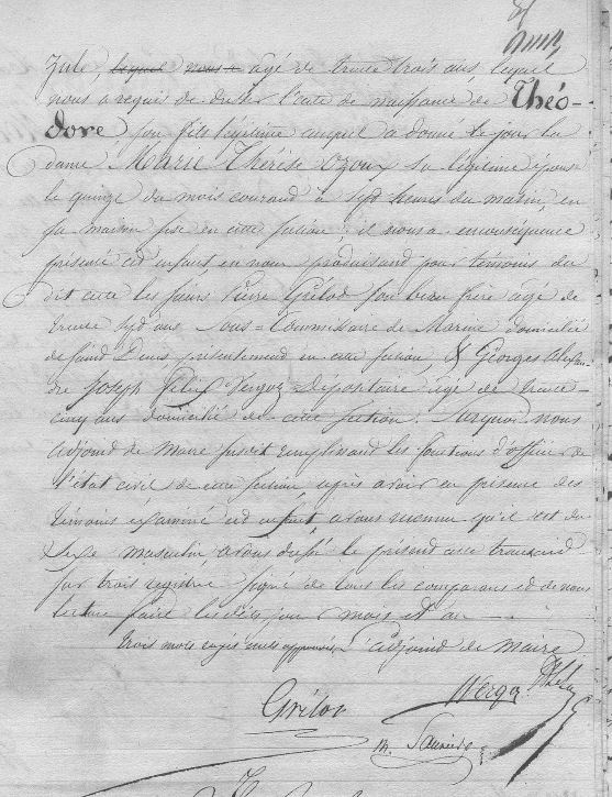 Birth entry of Théodore Sauzier